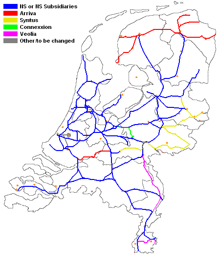 Map showing the various rail concession in the Netherlands, based upon date from wikipedia and this image: Please improve it if you can. Correctie: 5-11-2009: Venlo Roermond is ook Veolia. Almelo - Hengelo should be blue, Hengelo - Oldenzaal should be blue and yellow.